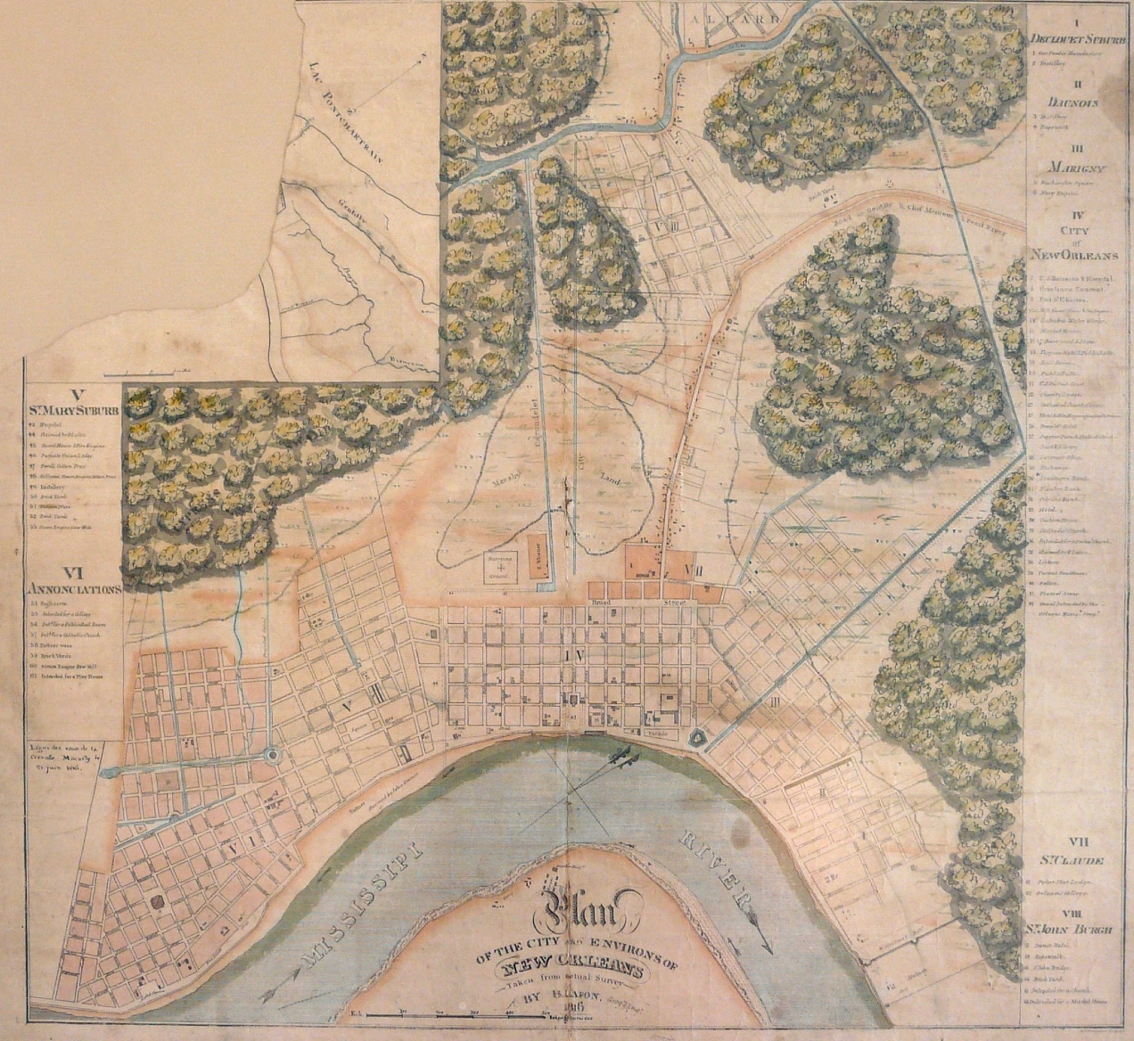 1816 map of New Orleans by Barthelemy Lafon. (Uploading of higher resolution copy welcome.)